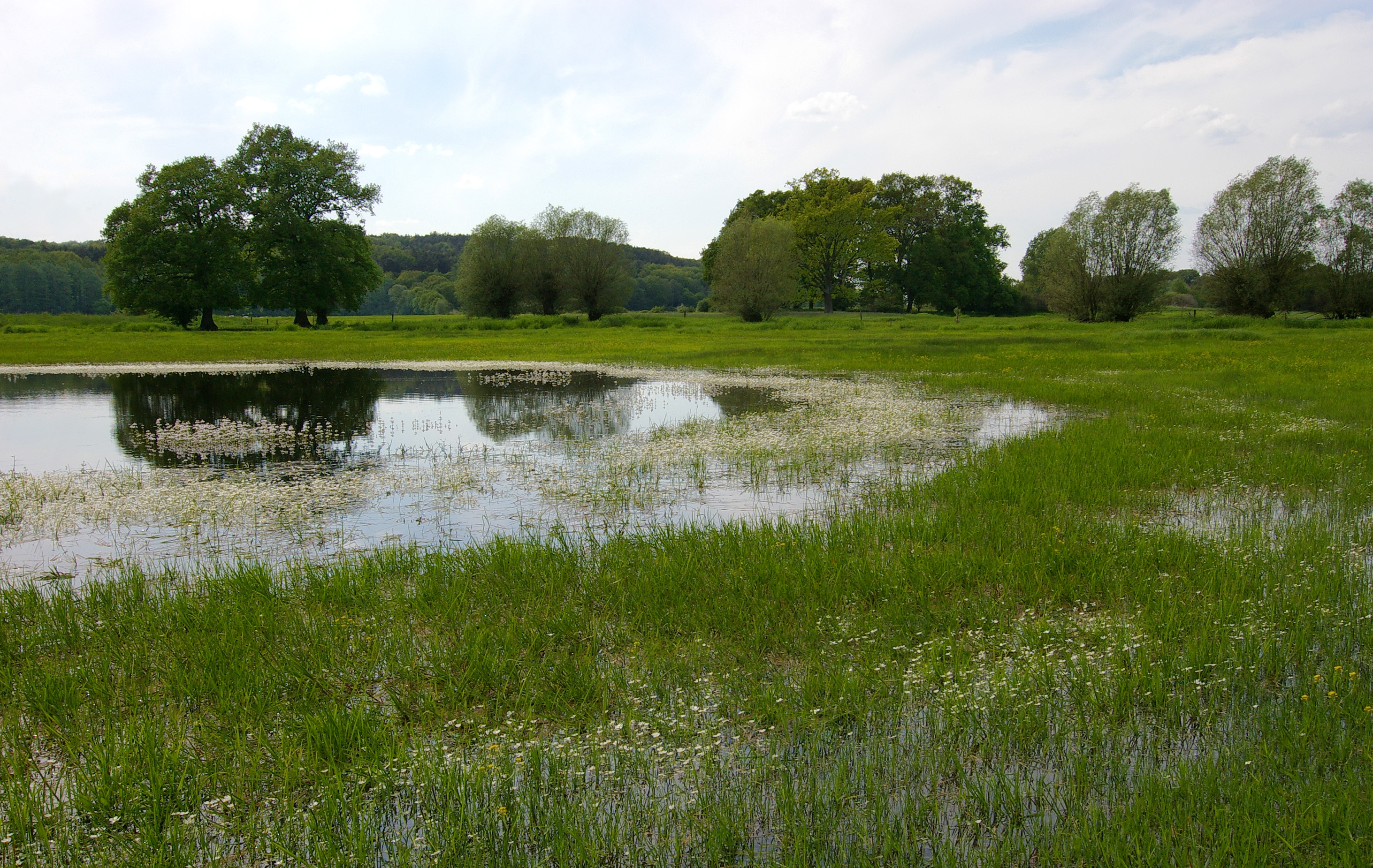 Pool in wet meadowland in the floodplain of the Elbe River in northern Germany. Typical habitat of the Red-bellied Toad Bombina bombina, the European Treefrog Hyla arborea and other amphibians.